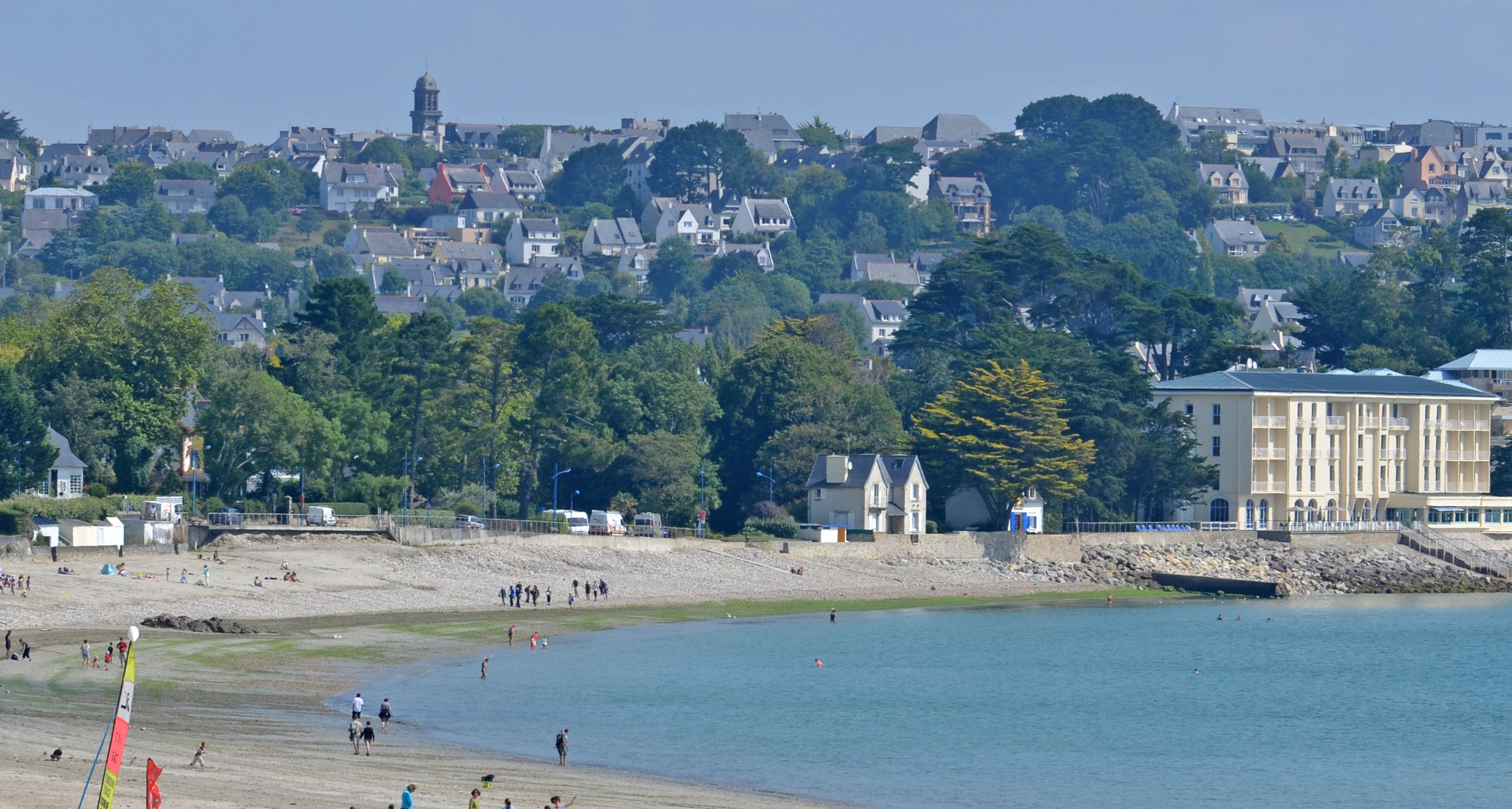 "Morgat port" on the peninsula of Crozon, facing the "Bay of Douarnenez", in the department of Finistere in western France. Former fishing village, Morgat then became tuna and sardine then then resort.